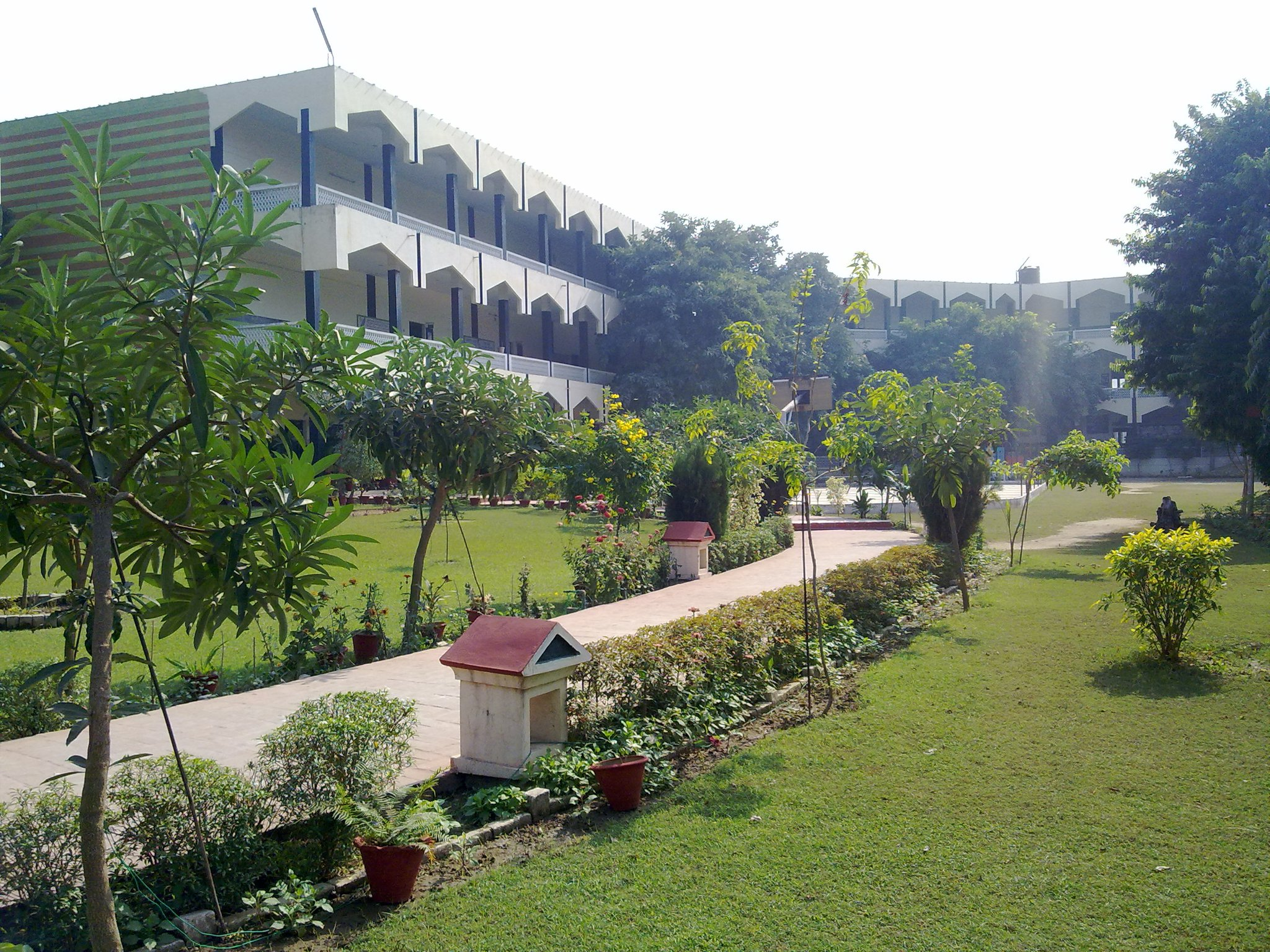 A view of Green Grove Public School